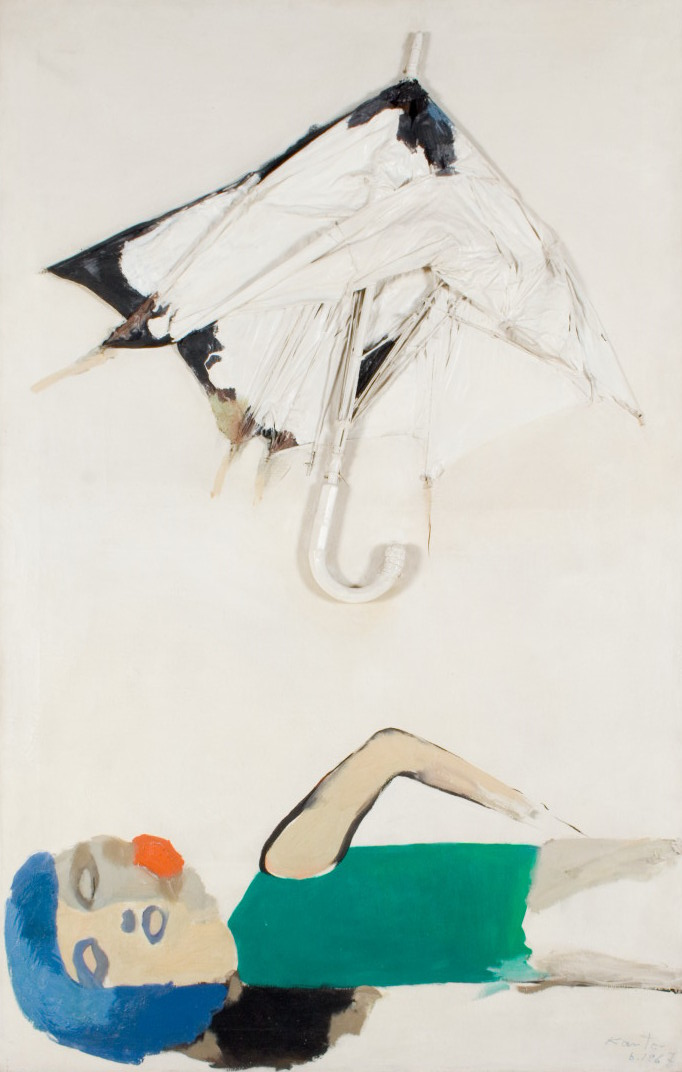 "Parasol i kobieta" - work by Tadeusz Kantor, from the permanent collection of Zachęta National Gallery of Art (Warsaw, Poland)